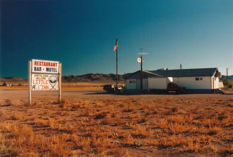 The Little A'Le'Inn, a bar, restaurant and motel in Rachel, viewed from the north.